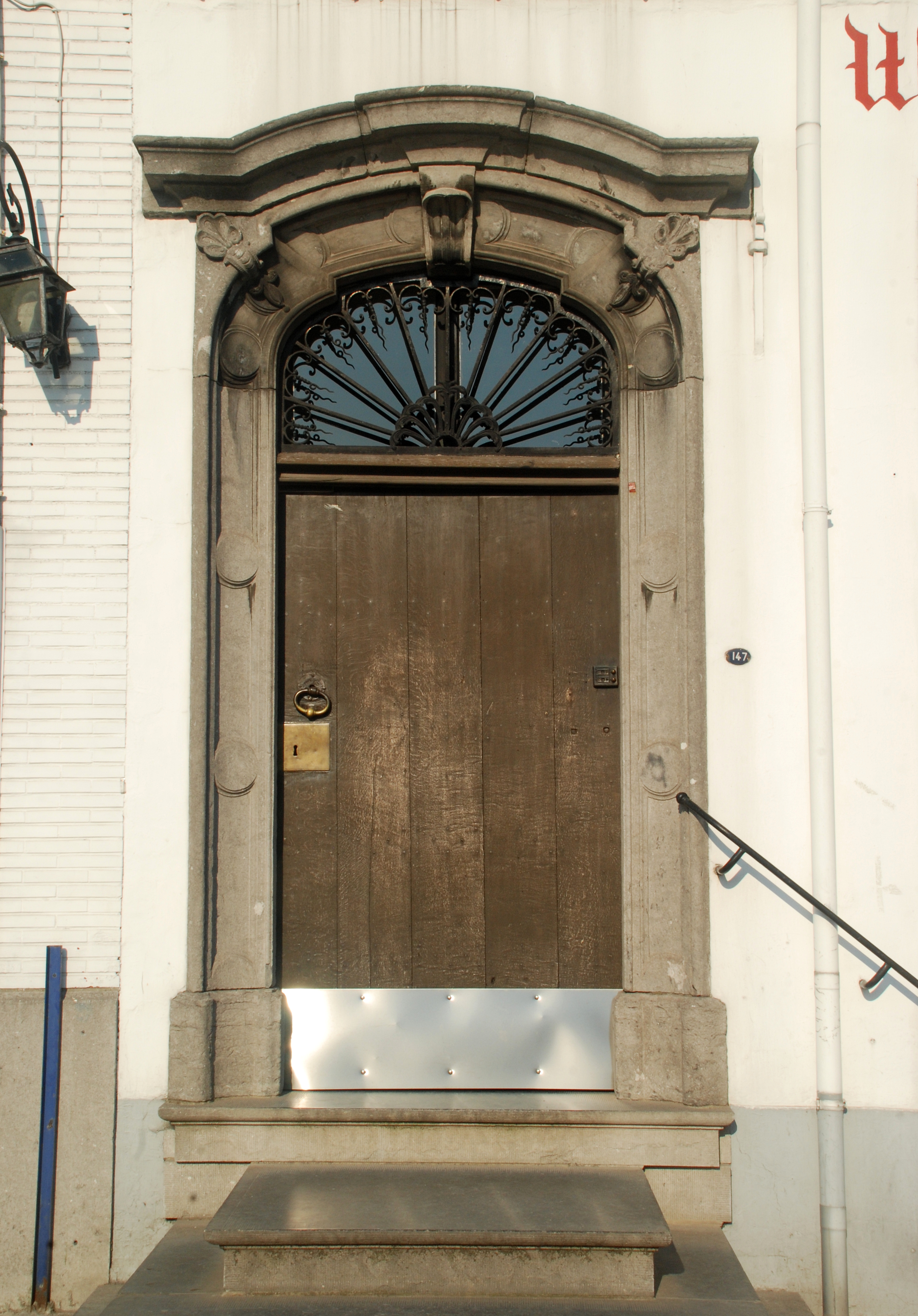 Belgium - Waterloo - Wellington Museum